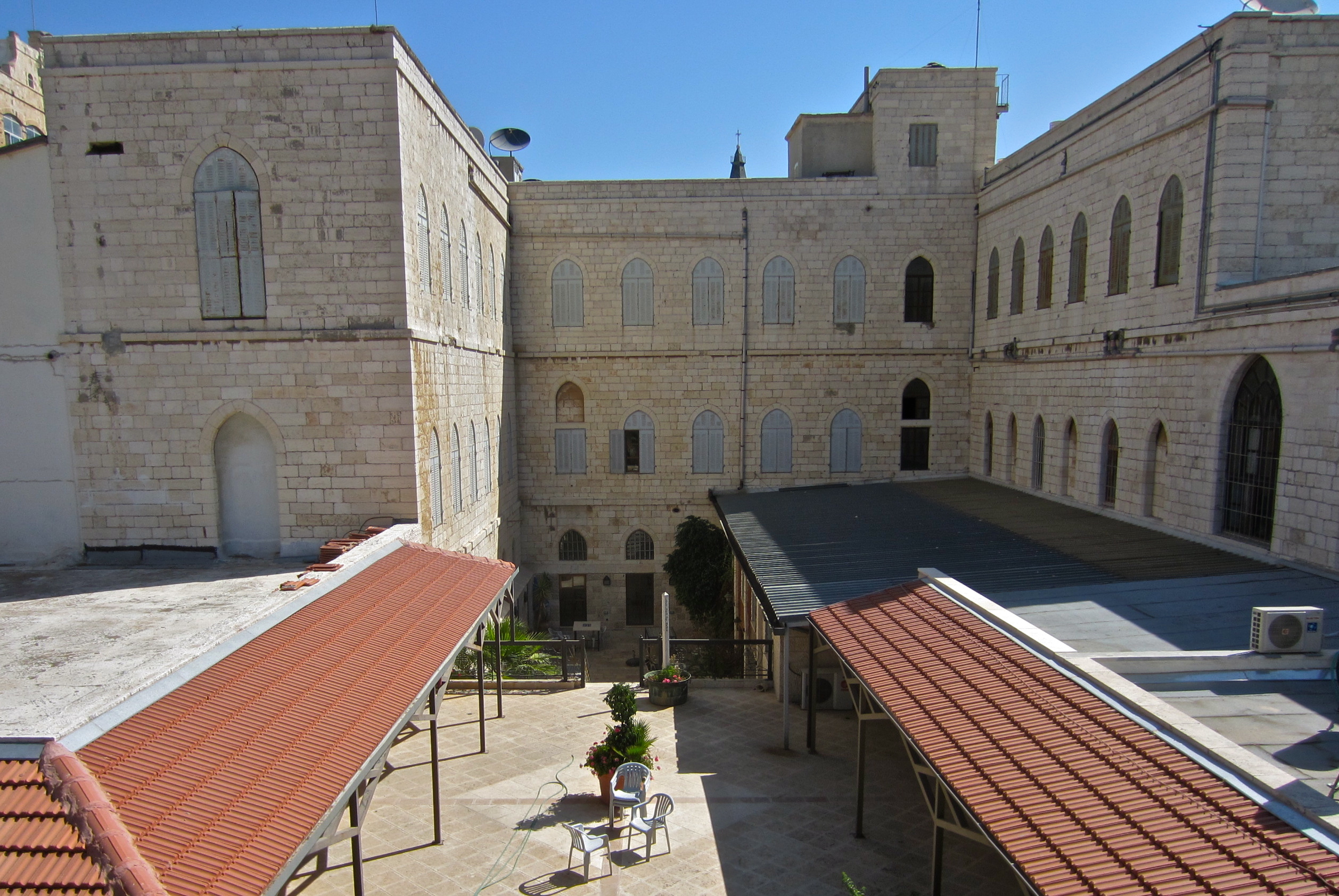 Seat of Roman Catholicism in old Jerusalem, built by the Europeans in the 19th century. From the Ramparts walk. Jerusalem